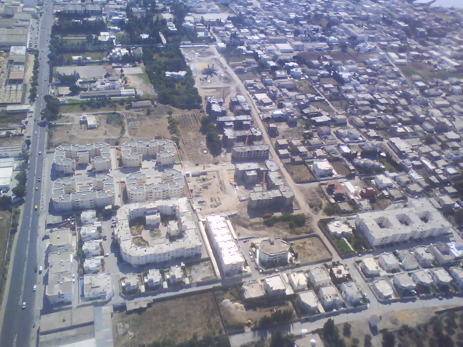 Aerial view of La Soukra, near to the tunis airport.